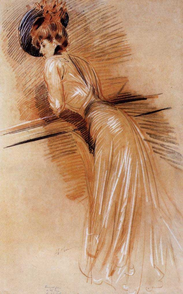 Elegant Woman at the Rail (Helleu's wife Alice Guérin)